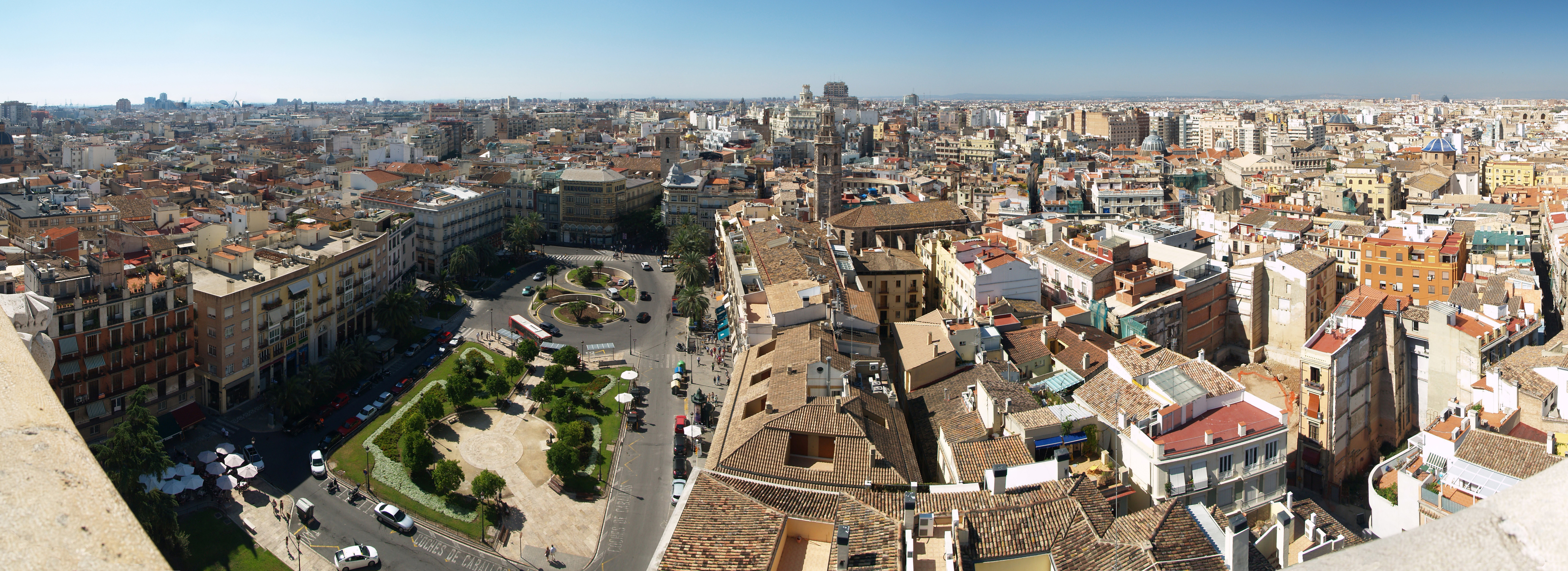 Panoramic view of Valencia, as seen from Micalet Tower